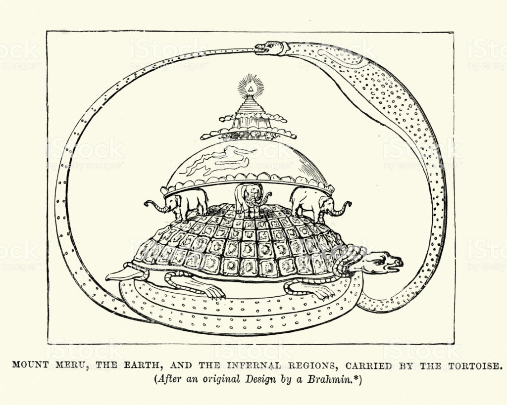 Vintage engraving showing a Hindu symbolical representation of the earth from Popular Science Monthly magazine, conducted by Edward Livingston Youmans.